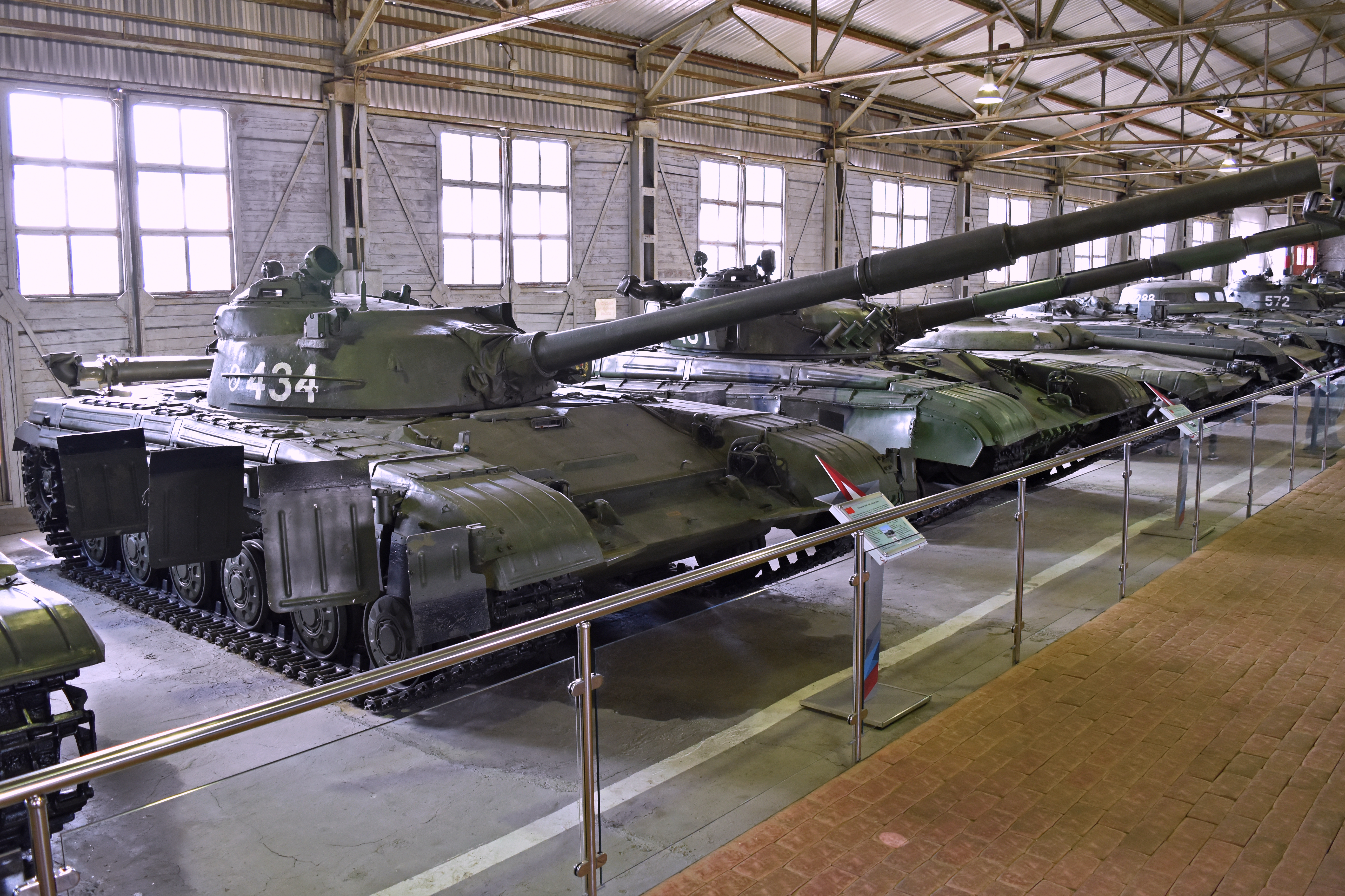 The T-64A (Object 434) had a 125mm gun, ‘Gill’ armour skirts and a 5TDF engine. In service, the side skirts were found to be fragile and were often removed. On display in what is best known as Hall 2 of the Kubinka Tank Museum, although its official title is now Pavilion 2 in Area 2 of the Park Patriot museum. Kubinka, Moscow Oblast, Russia. 24th August 2017.